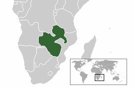 Map of the territiries of the CAF (1953-1963).